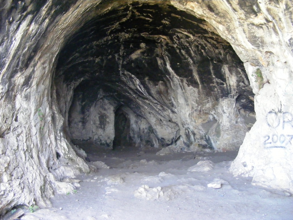 Cities in Israel